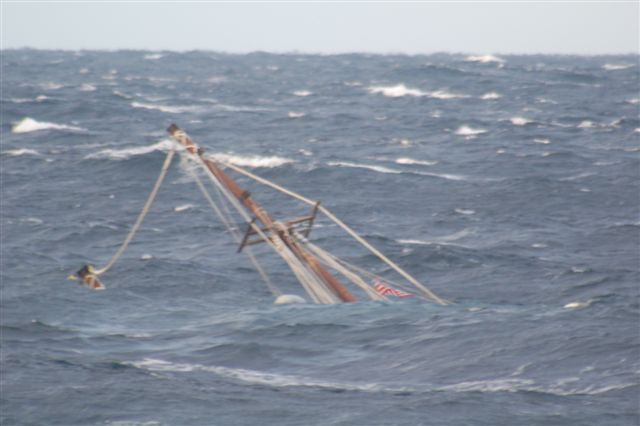 A mast of the 88-foot sailing vessel RawFaith protrudes from the water as the boat sinks in approximately 6,000 feet of water about 166 miles southeast of Cape Cod, Mass., Wed., Dec. 8, 2010. The crew of the Kittery, Maine, Coast Guard Cutter Reliance remained on scene until the vessel sank. Coast Guard photo by Coast Guard Cutter Reliance crew.